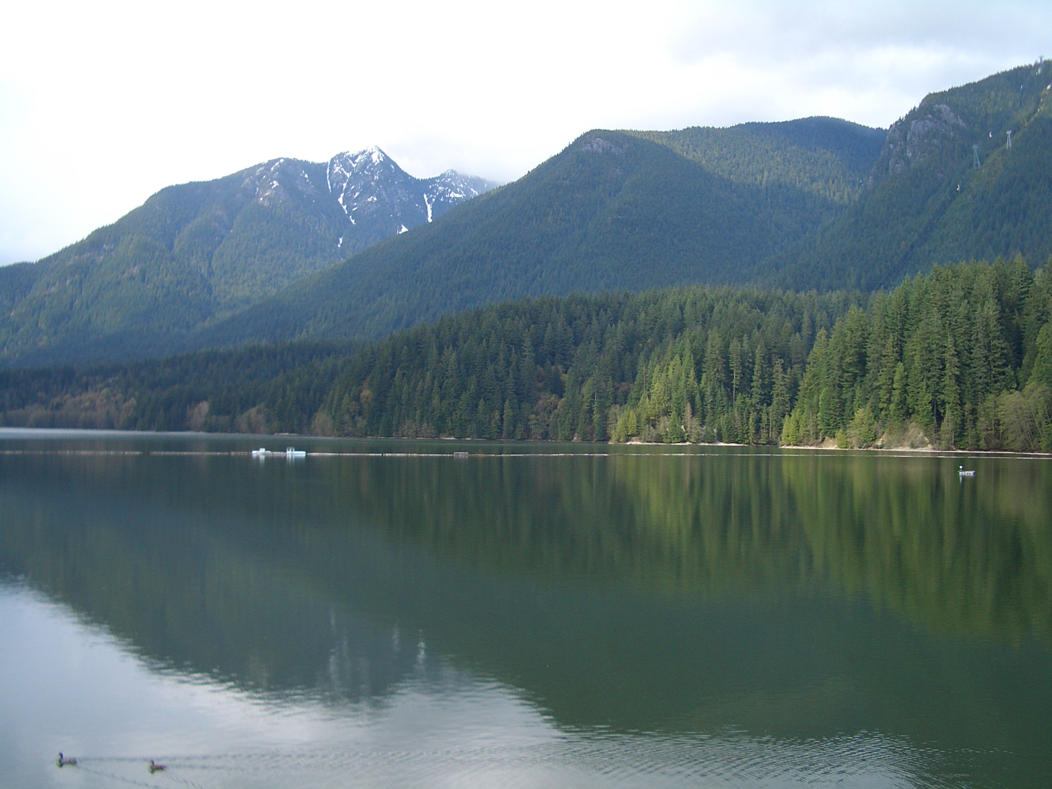 Capilano Lake seen from Cleveland Dam.